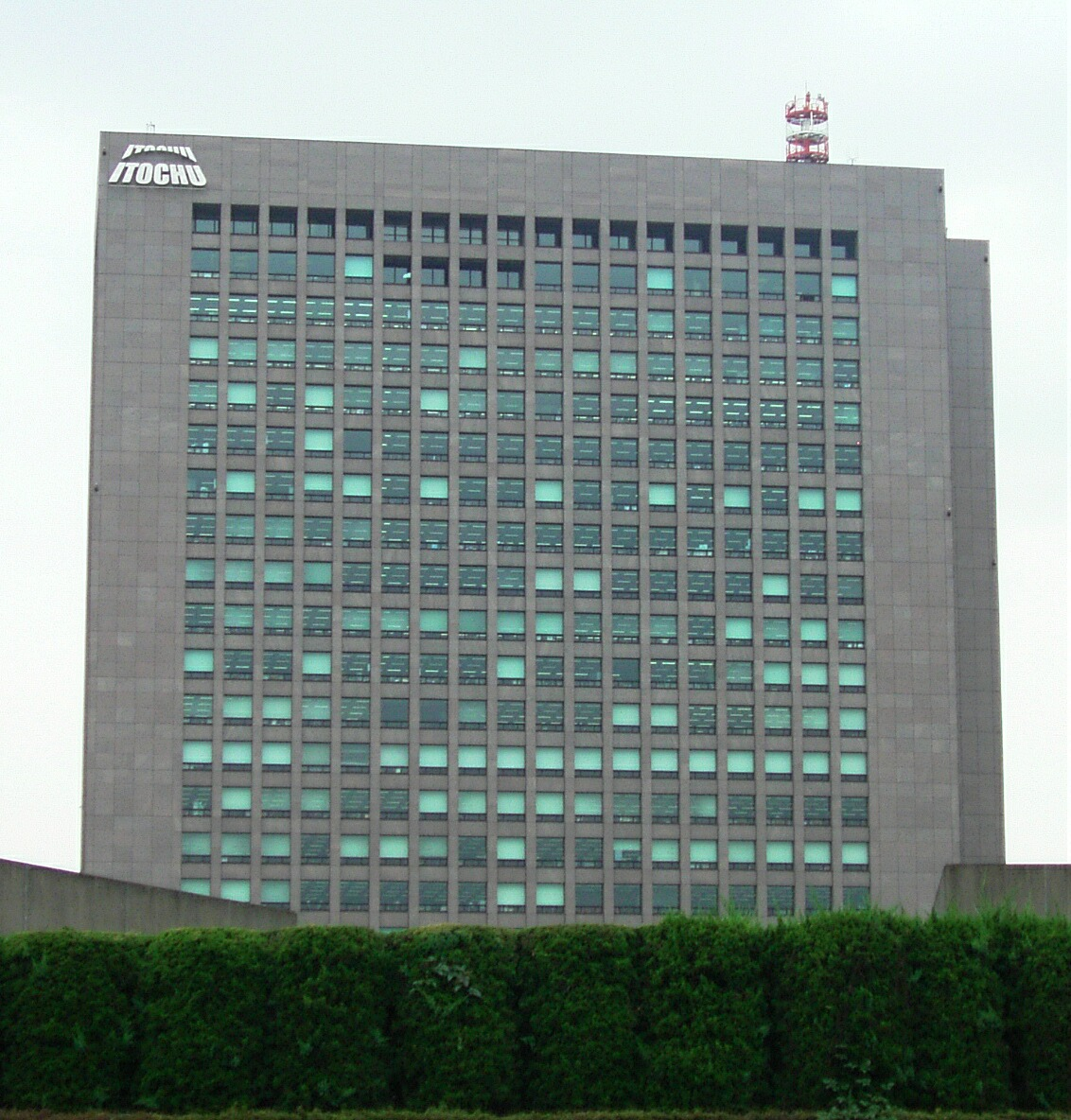 Itochu-and-Tokyo-Office